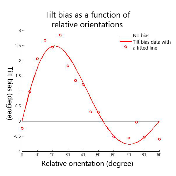 Tilt bias as a function of relative orientations